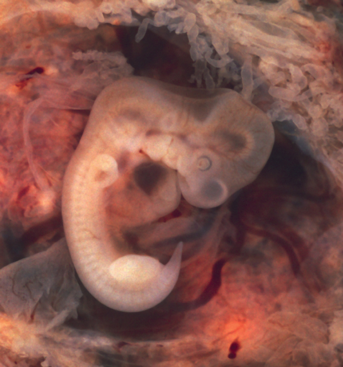 Anatomy & Physiology, OpenStax CNX Project